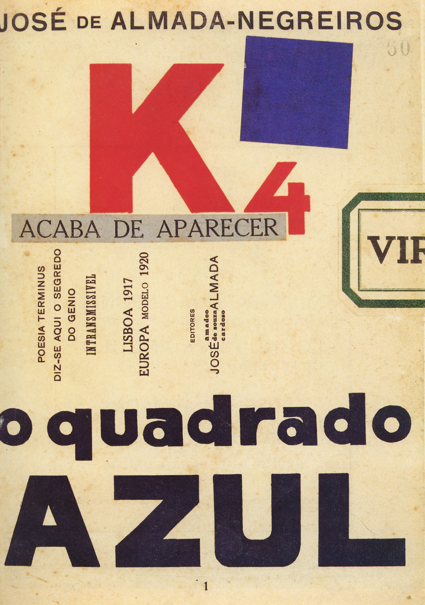 K4 - O Quadrado Azul, by Almada Negreiros, (book cover), 1917